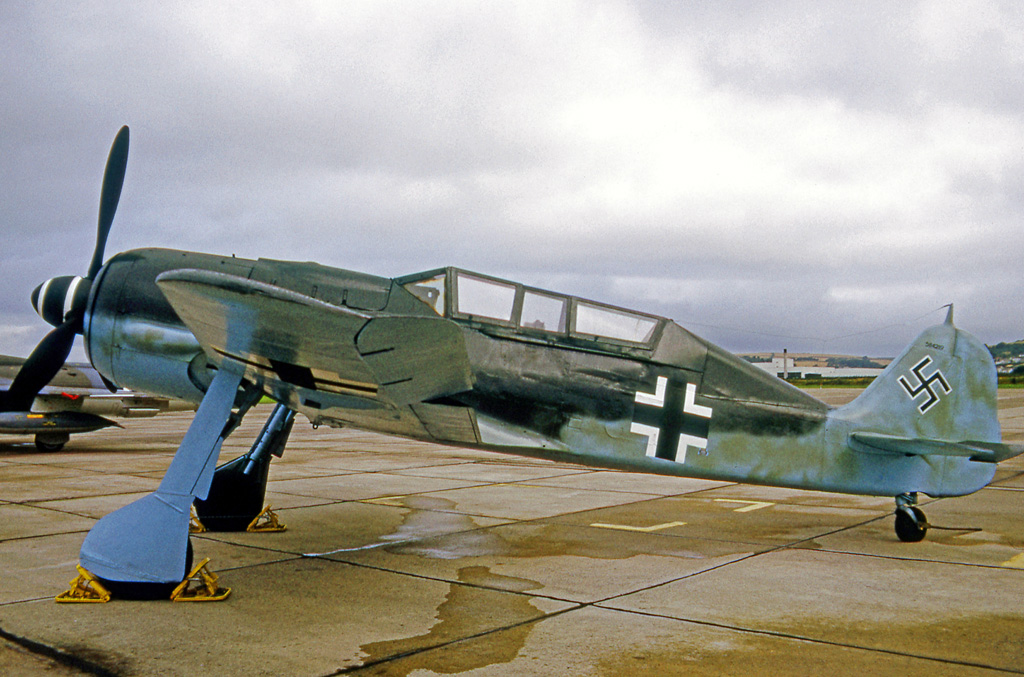 Foche Wulf FW.190 584219 in Luftwaffe markings at RAF Chivenor in 1971